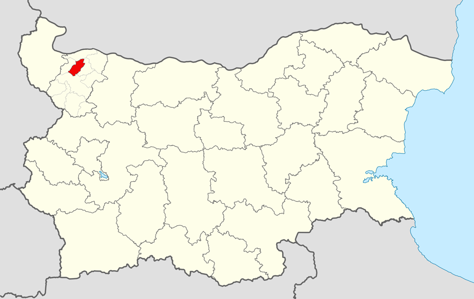 Location map of Medkovets Municipality within Bulgaria and Montana Province. Equirectangular projection, N/S stretching 130 %. Geographic limits of the map: N: 44.4° N S: 41.1° N W: 22.1° E E: 28.9° E